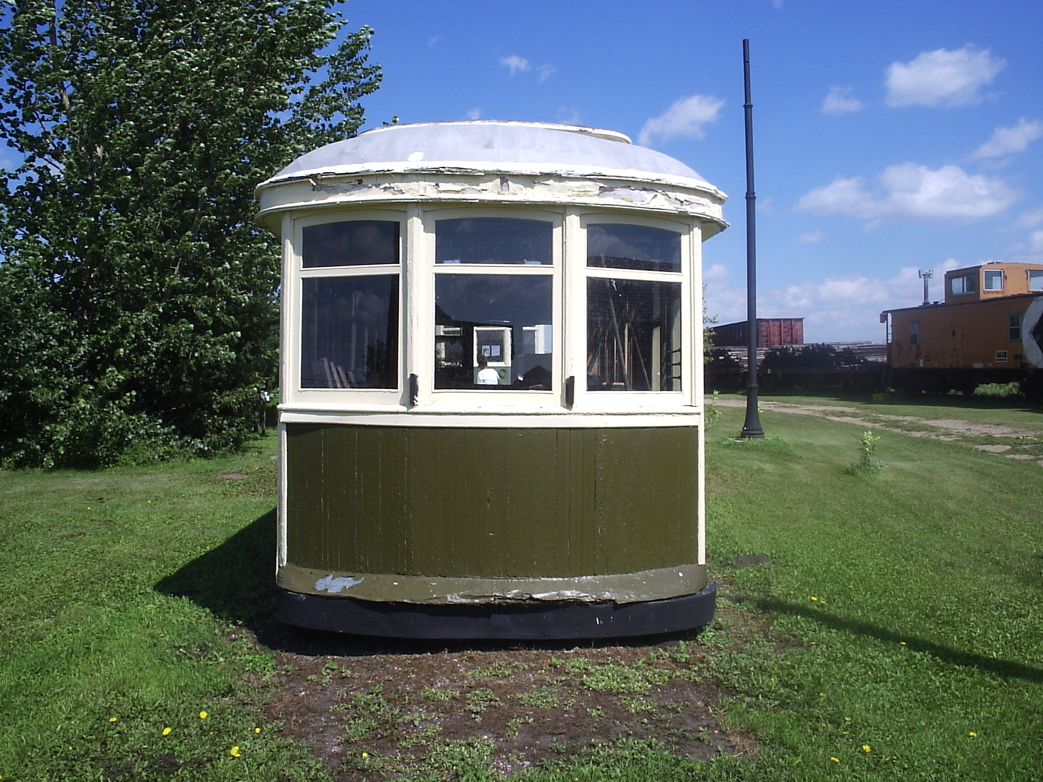 Saskatoon Municipal Railway streetcar No.40 at Saskatchewan Railway Museum.